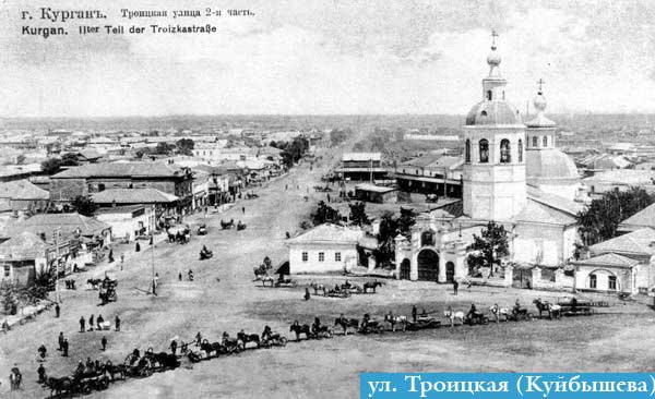 Troitskaya Street and Holy Trinity Church in Kurgan.